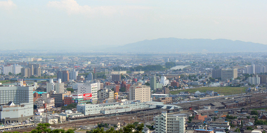 Skyline of Kumamoto, Kumamoto, including Kumamoto Station, viewed from Mount Hanaoka.